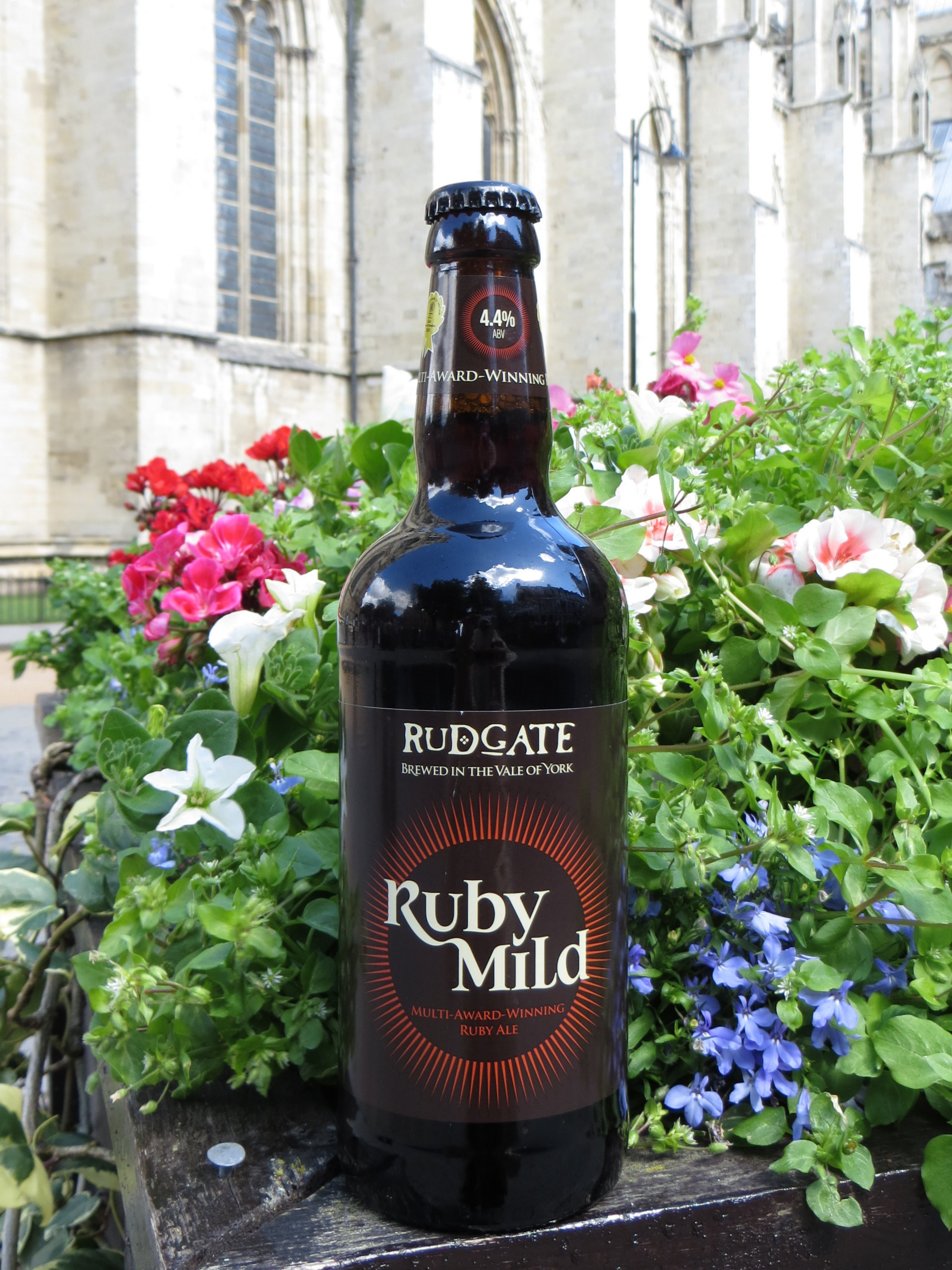 Rud Gate Ruby Mild Ale & York Minster